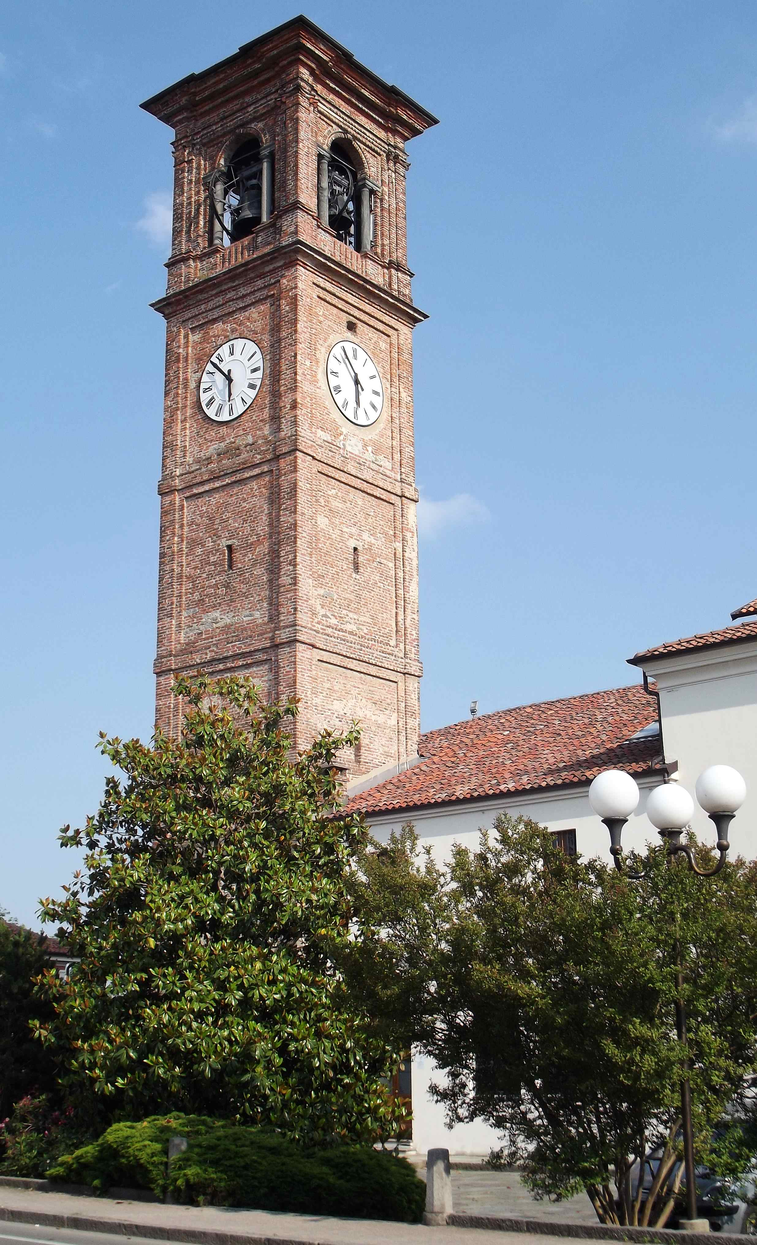 Gaglianico (BI, Italy): bell tower